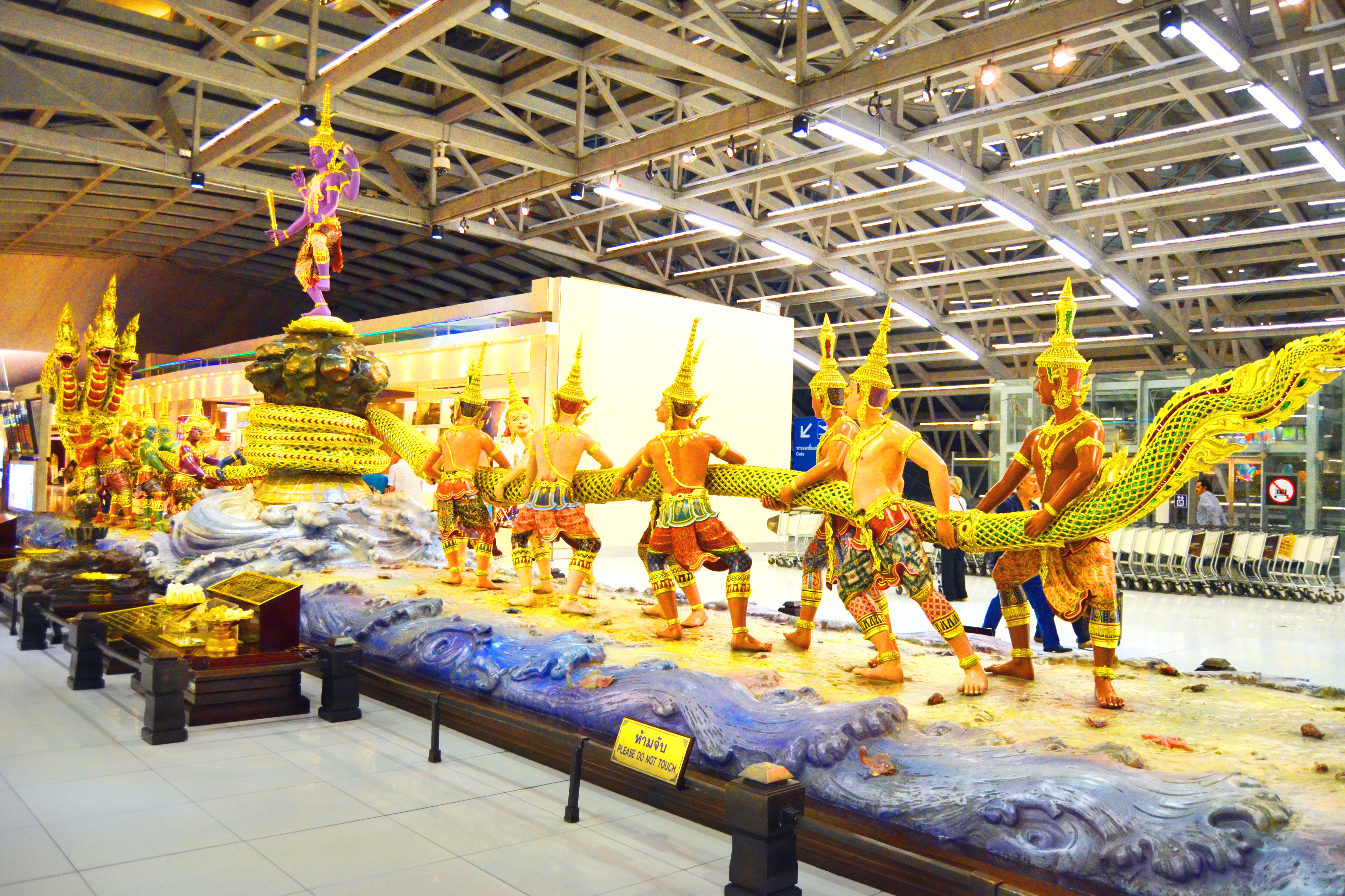 Suvarnabhumi Airport Inside